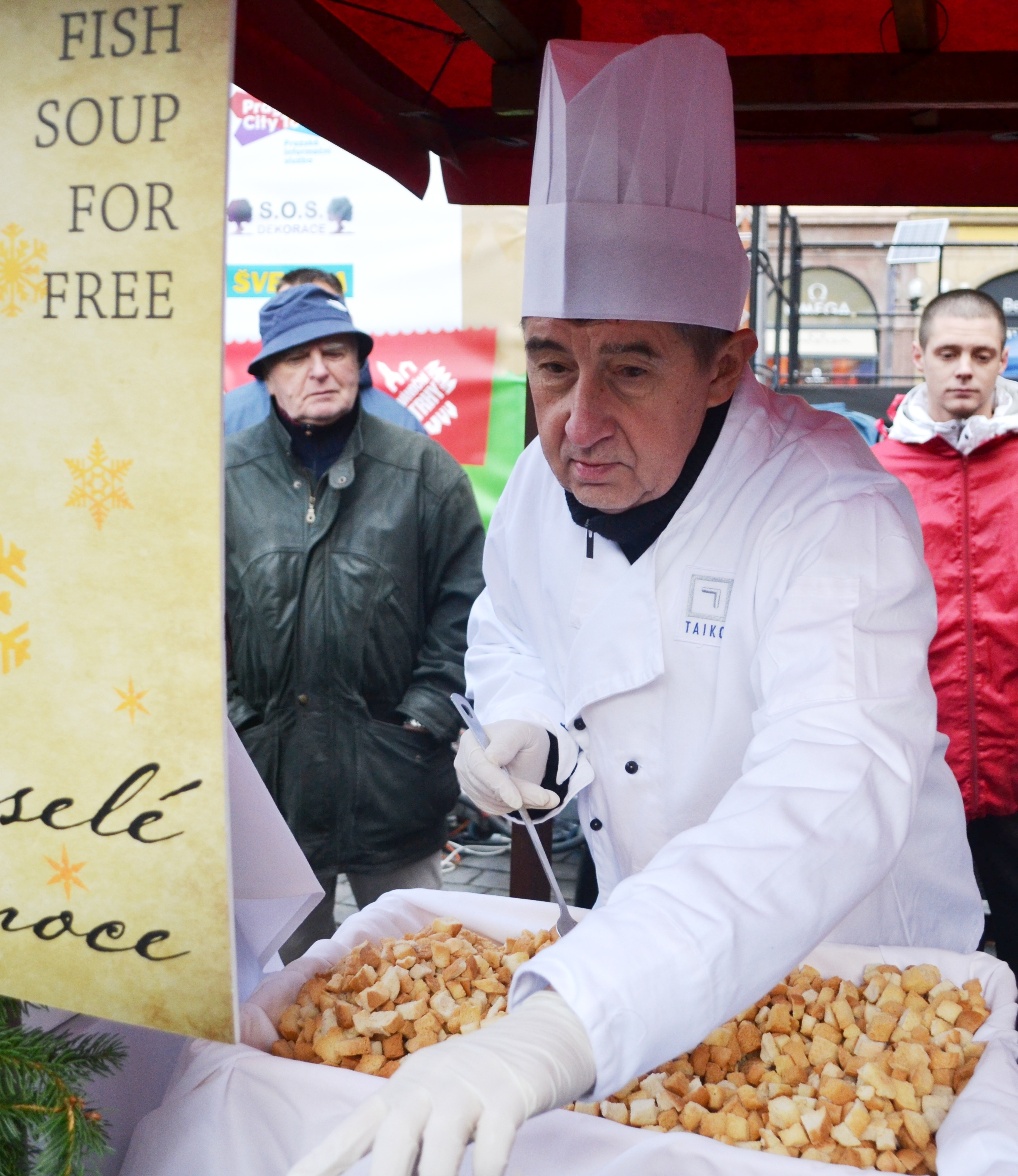 Andrej Babiš (Minister of Finance) serving fish soup for free at Old Town Square in Prague.